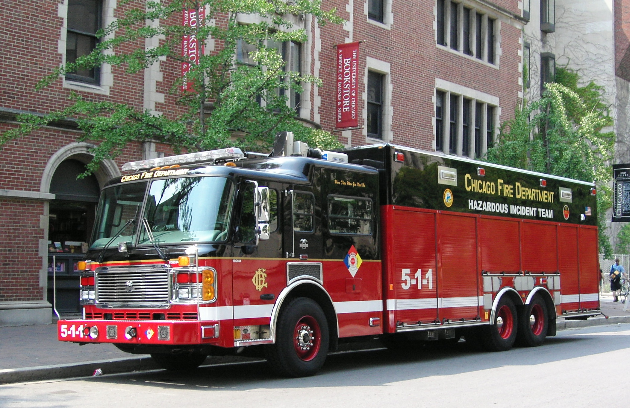 Chicago Fire Department Hazmat apparatus visiting the University of Chicago campus a few years ago. As commented below by "Nikon Nut 77" (thanks!), this unit is part of the City of Chicago's Hazardous Incident Team.